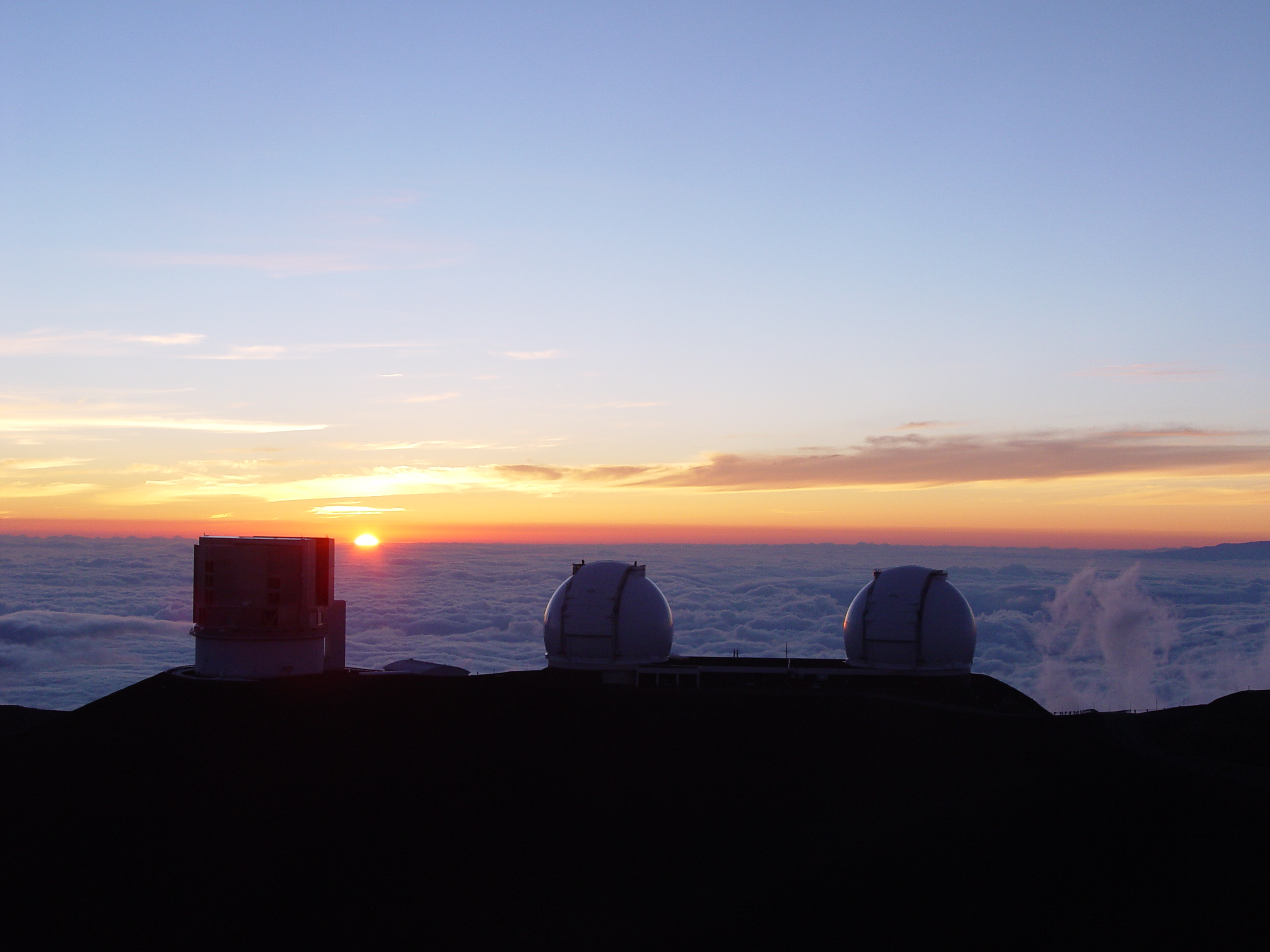 The Subaru Telescope and W. M. Keck Observatory at sunset on Mauna Kea.